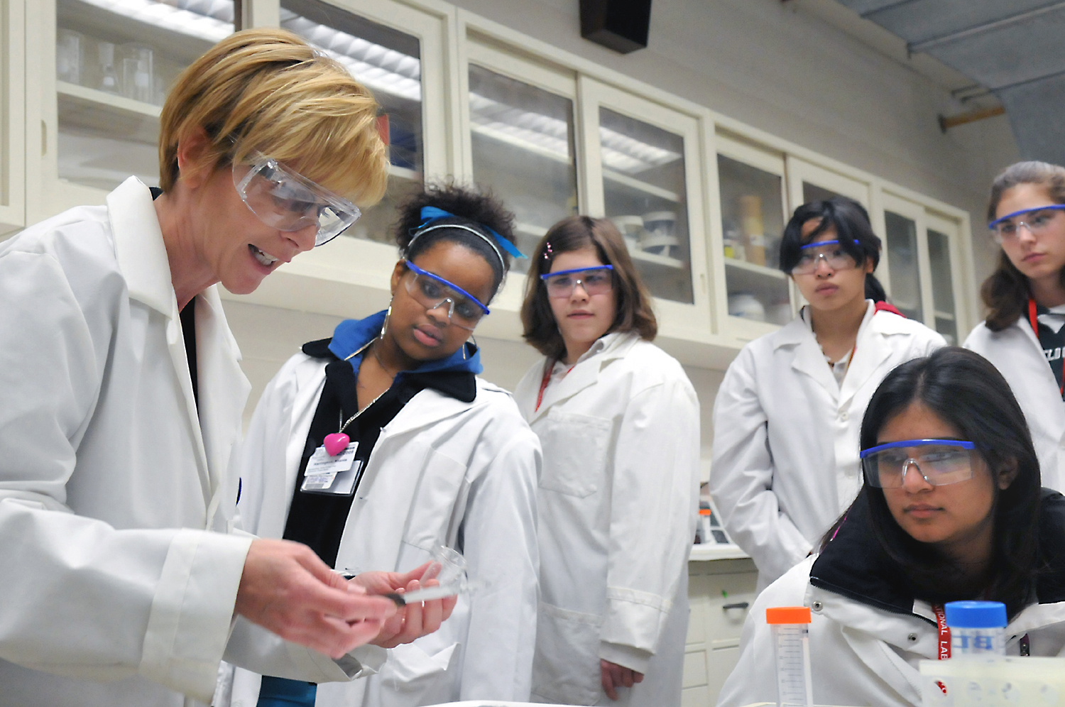 At its annual event "Science Careers in Search of Women", Argonne National Laboratory demonstrates to 350 young women from Chicago-area high schools why a career in science might be right for them. The day-long Science Careers in Search of Women conference puts students face-to-face with scientists from a wide variety of disciplines and provides an opportunity to interact with positive female role models. Students attending the event will see first-hand what science and technology careers are all about. More than 7,000 young women have participated in the program since it began at Argonne in 1987. Read more » Photo by George Joch / courtesy Argonne National Laboratory.